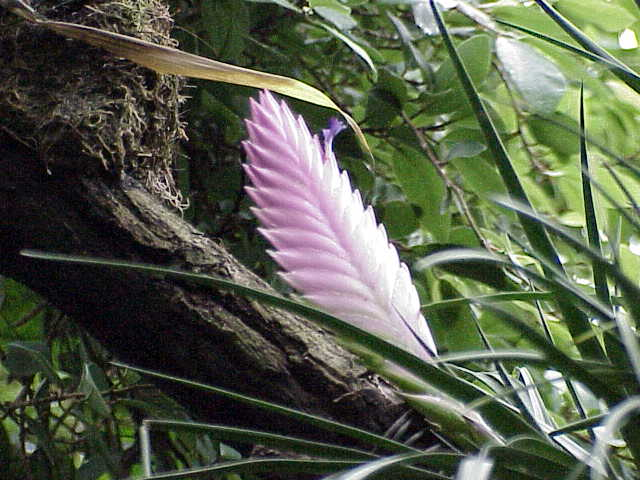 Species: Tillandsia cyanea Family: Bromeliaceae Image No. 2